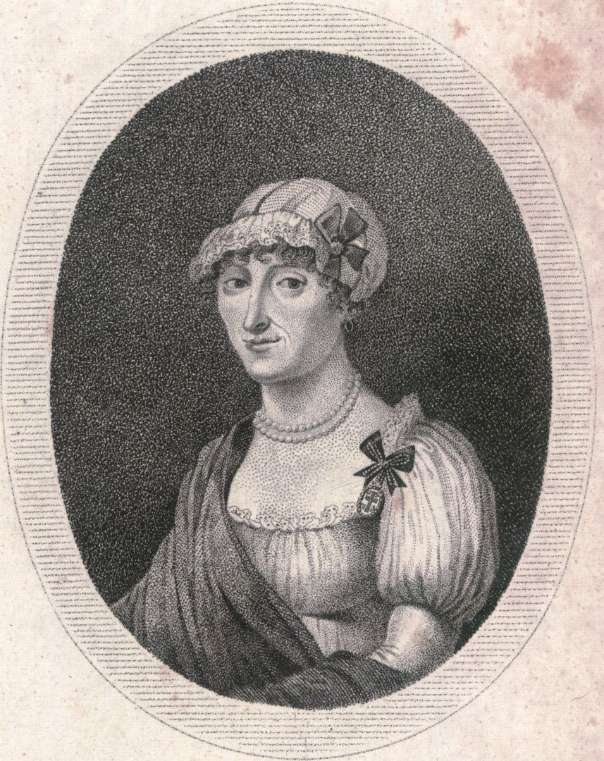 Woodcut print c. 1800 of the writer Tekla Lubienska